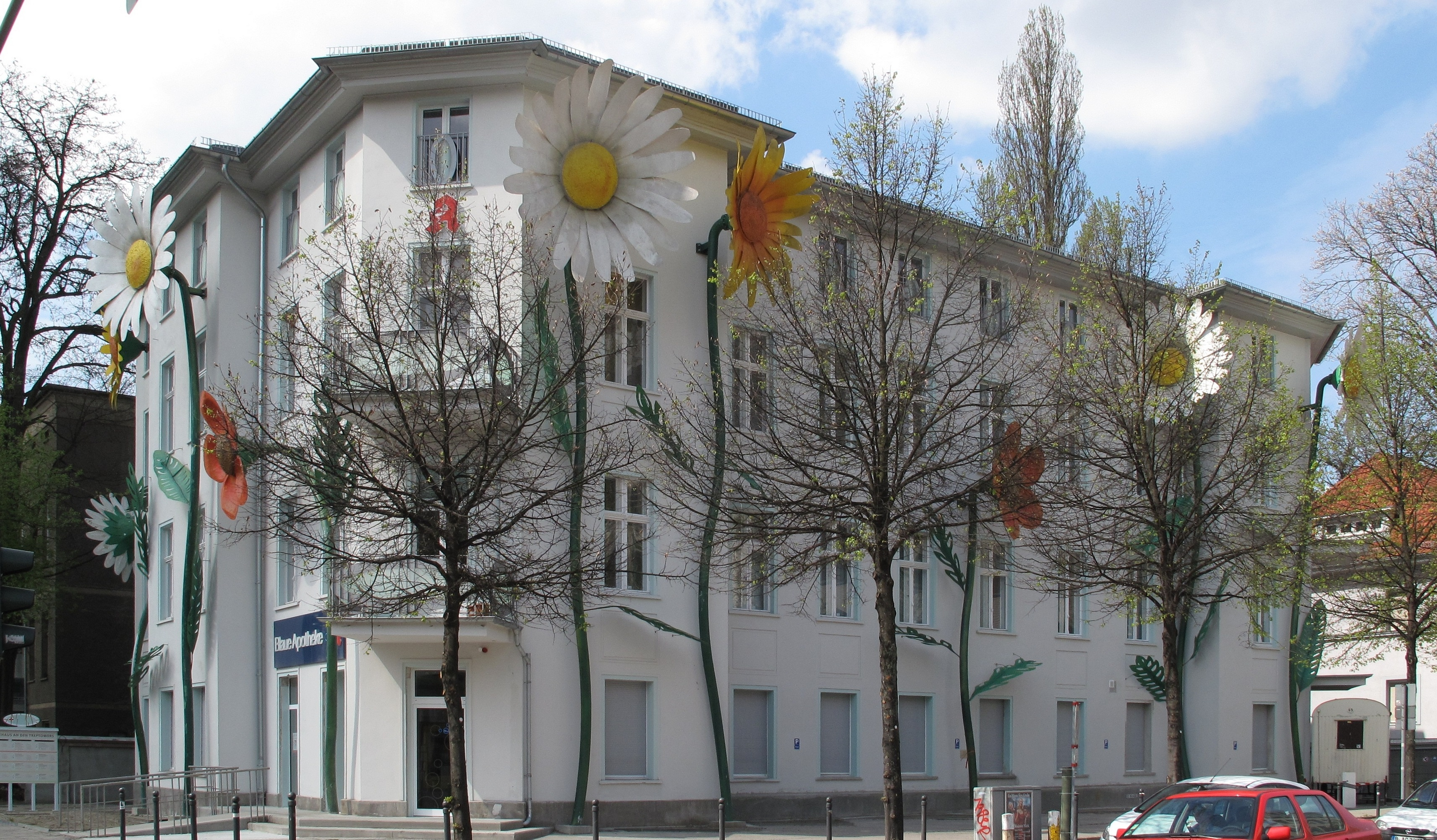 The Ärztehaus Treptow (german for: doctor’s house, health center Treptow) is a listed villa in Berlin-Alt-Treptow, Germany, built in the 1880ths/1890ths. In 2012 there created the pop Art-artist Sergej Alexander Dott the art object Riesenblumen (german for: giant flowers) with ten up to 12 meters high sculptures of medicinal plants.